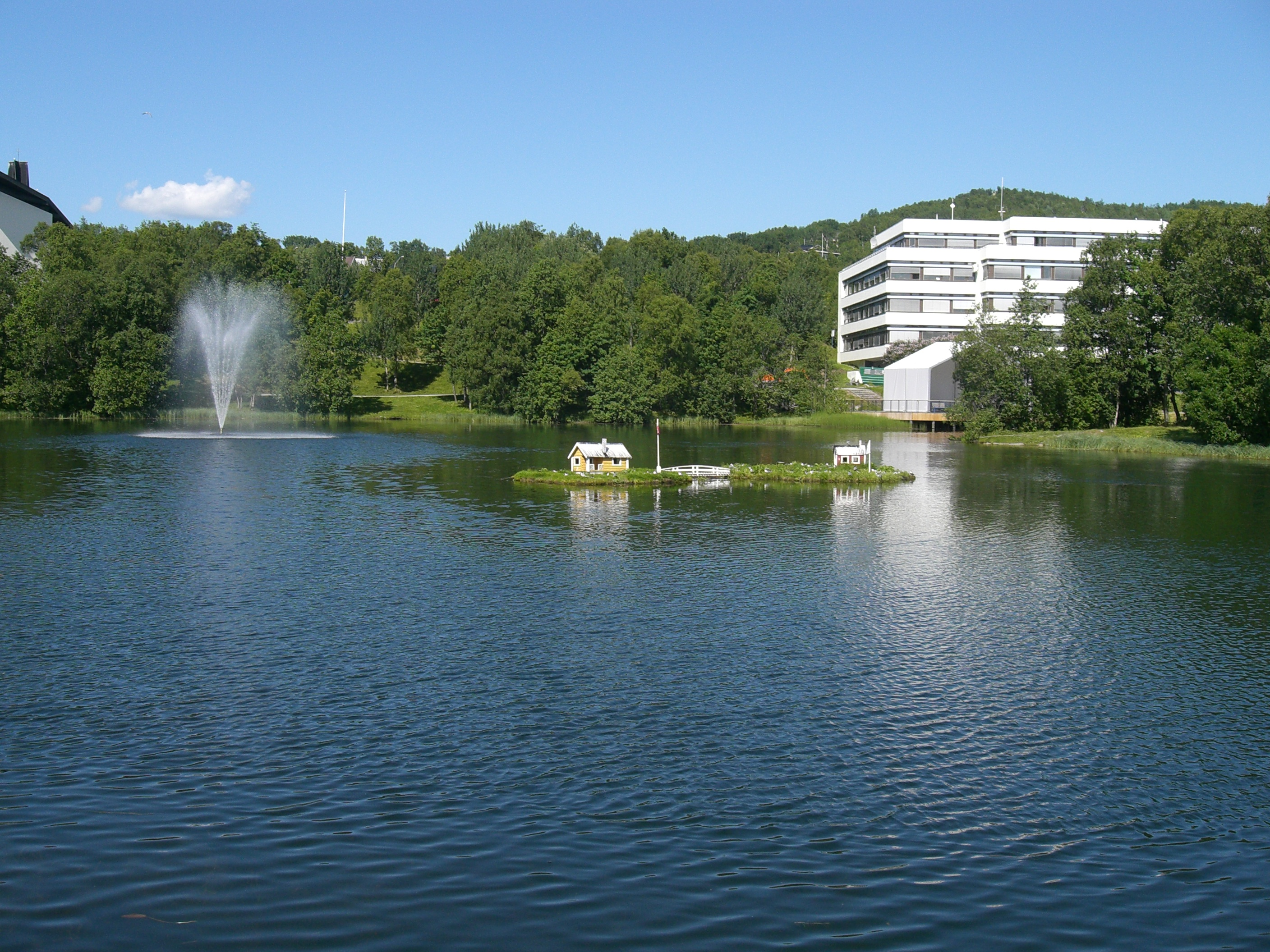 Finnsnes, administrative center of Lenvik, province of Troms, Norway. Summer 2007